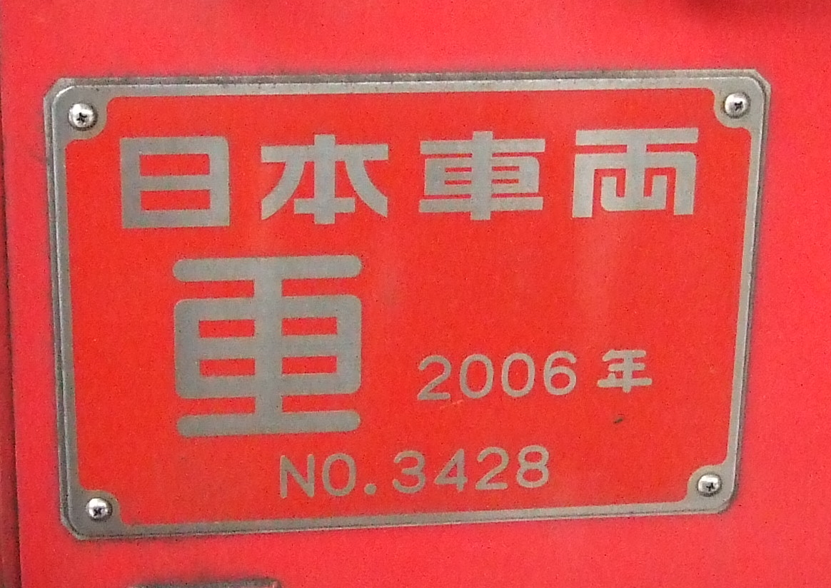 新的火車頭哦,Made in Japan Nippon Sharyo builder's plate 日本車輌銘板